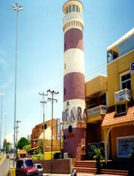 Puerto Píritu lighthouse works some of the highlights from this city.